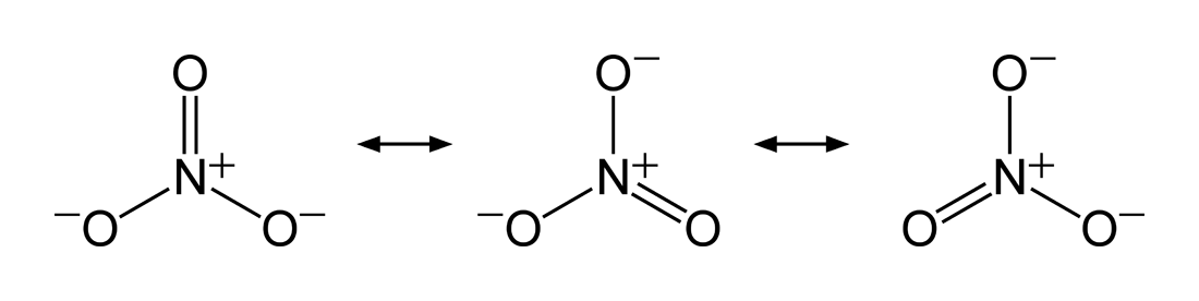 Canonical forms of the nitrate ion, NO3−, resonating